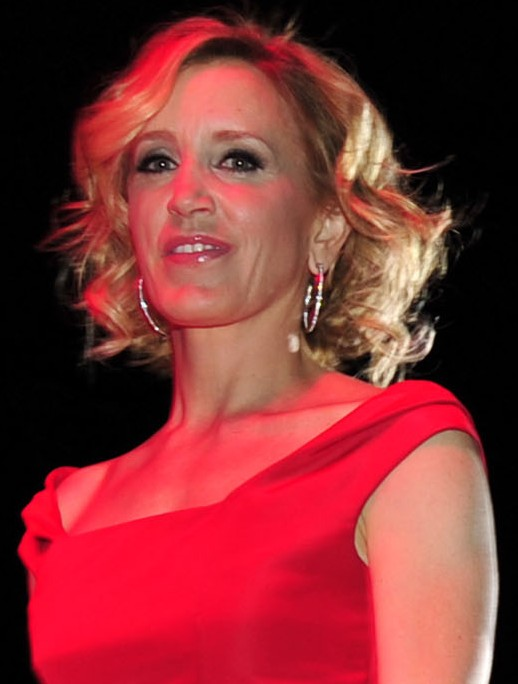 The Heart Truth® is a national awareness campaign for women about heart disease sponsored by the National Heart, Lung, and Blood Institute (NHLBI), part of the National Institutes of Health, U.S. Department of Health and Human Services (HHS). The Red Dress®, introduced by the NHLBI in 2002, is the national symbol for women and heart disease awareness. Visit for information on women and heart disease. Felicity Huffman, Estelle== HEART TRUTH RED DRESS 2010 Collection== NY Public Library, NYC== February 11, 2010== © Patrick McMullan== Photo - PATRICK MCMULLAN/PatrickMcMullan.com== == ®, TM The Heart Truth, its logo and The Red Dress are trademarks of HHS. Participation by Mercedes-Benz Fashion Week, Diet Coke, Swarovski, Tylenol, St. Joseph's Aspirin, Bobbi Brown, and Brian Atwood does not imply endorsement by HHS.